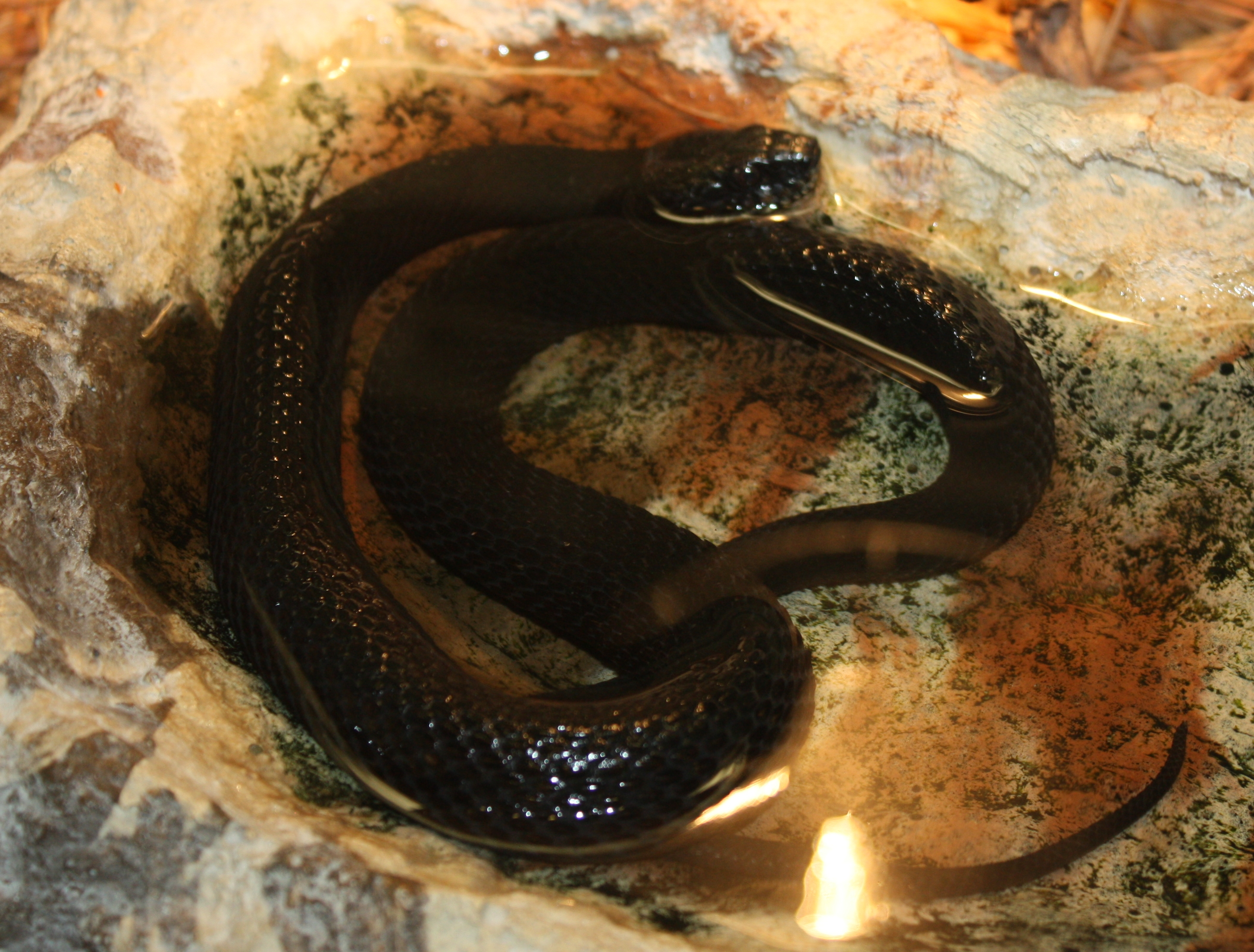 Mangrove Water Snake Nerodia fasciata compressicauda (synonymized with Nerodia clarkii compressicauda) at Cincinnati Zoo